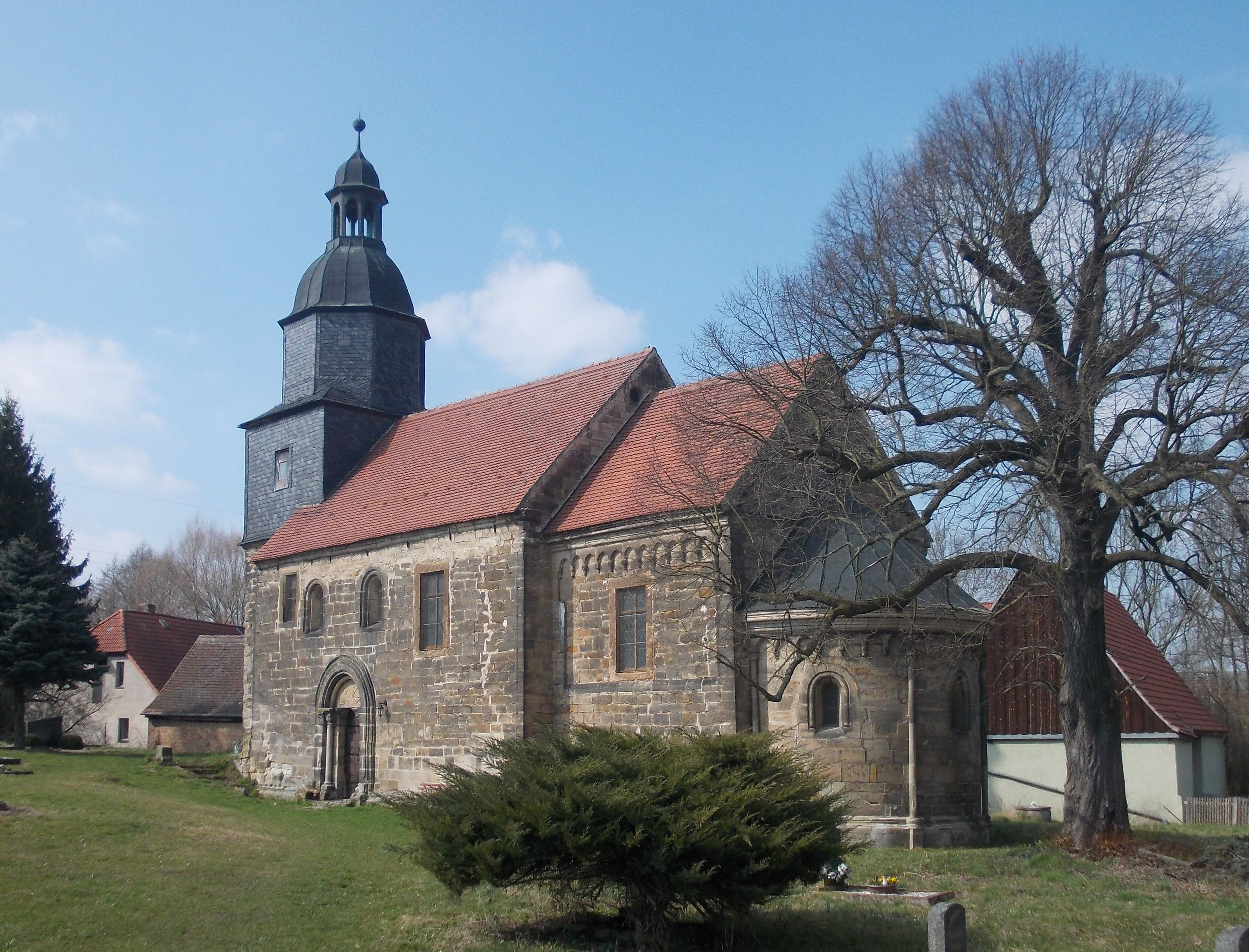 St. Margaret's Church in Steinbach (Bad Bibra, district: Burgenlandkreis, Saxony-Anhalt)